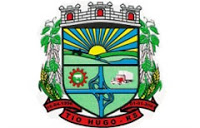 Coat of arms of the city of Tio Hugo, Rio Grande do Sul, Brazil.